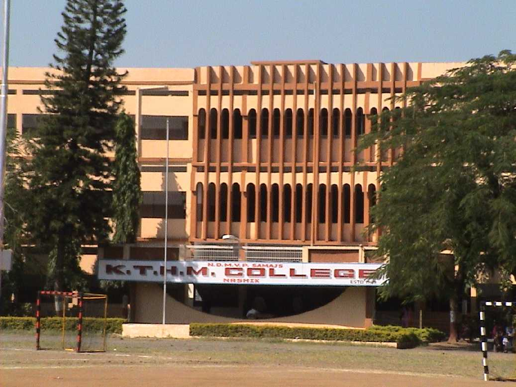 Main Building of KTHM College photographed in December 2004 by User:VijayBarve